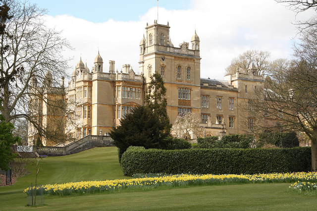 Englefield House, near to Englefield, West Berkshire, Great Britain. The Elizabethan home of the Englefield family was destroyed in a fire of 1886 - the handsome rebuilt house by Richard Armstrong of London is neo-Elizabethan